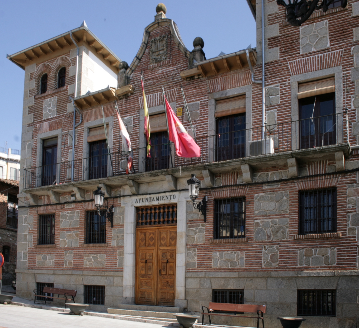 The town hall at Mombeltrán in the province of Ávila, under the autonomous region Castilla y Léon, Spain.